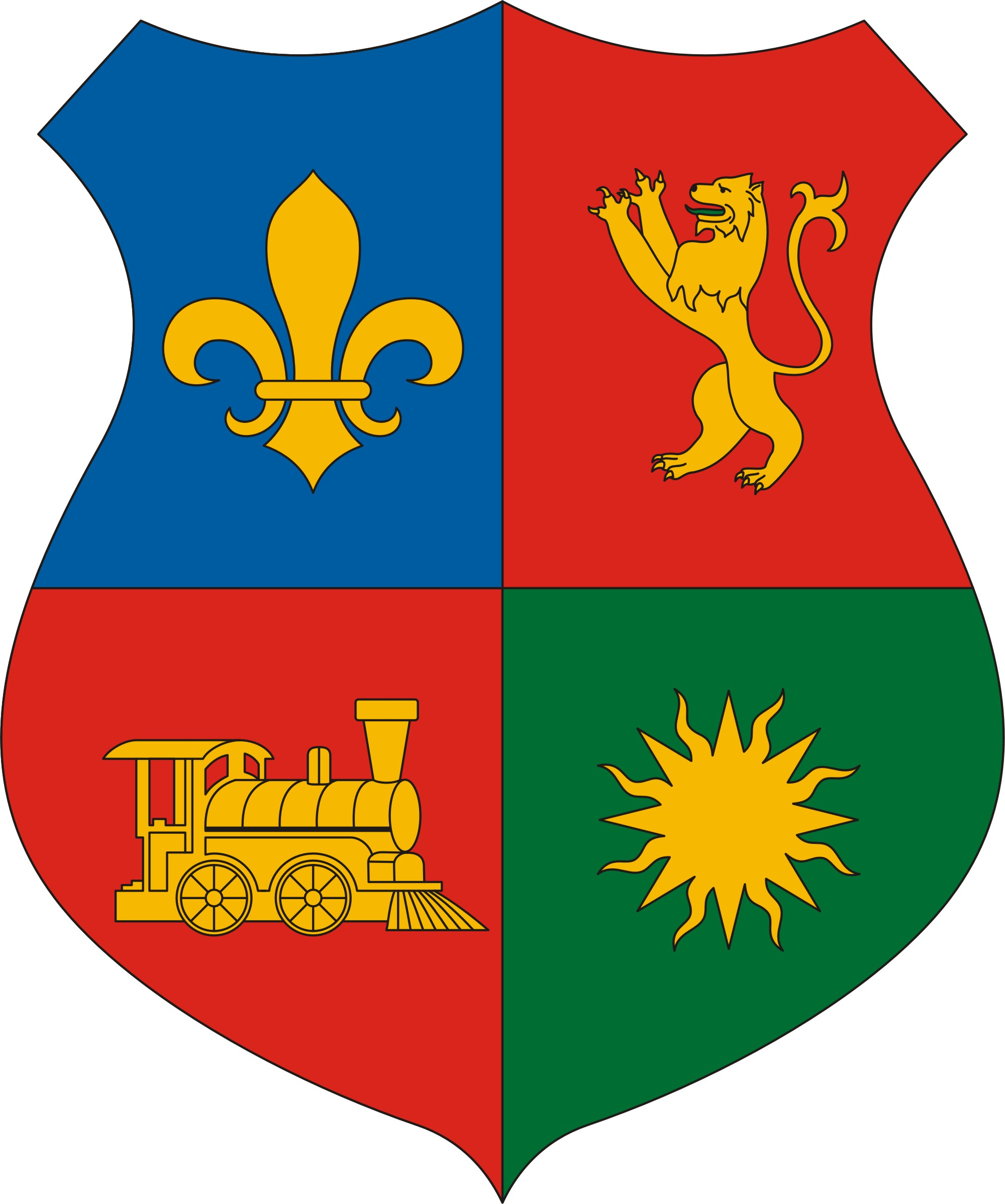 Coat of arms of Lőkösháza, Hungary